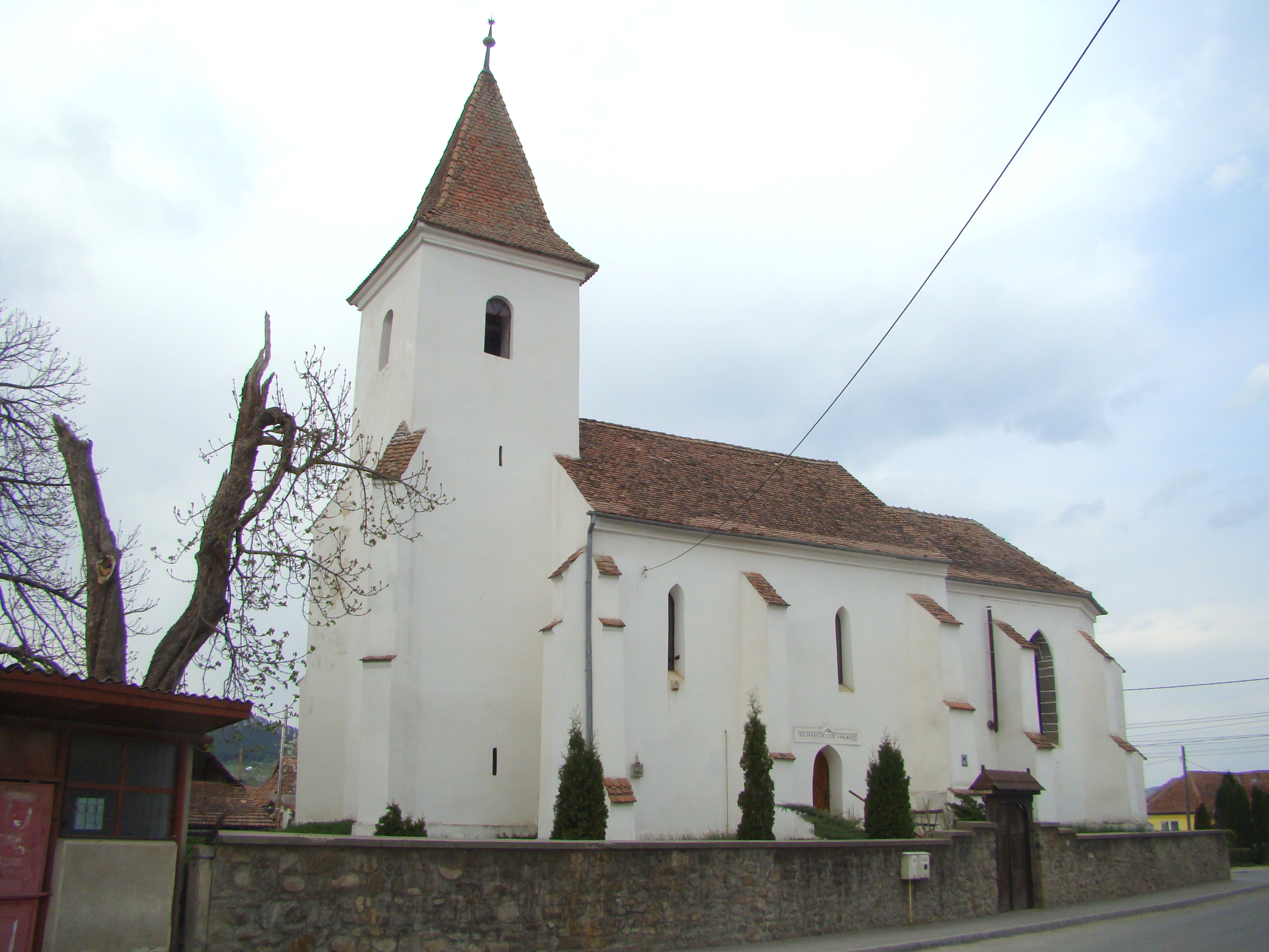 Reformed church in Albești, Mureș county, Romania